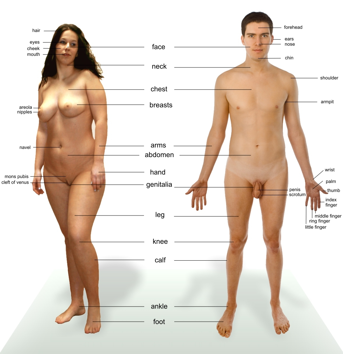 Human male and female - anatomical features pointed out